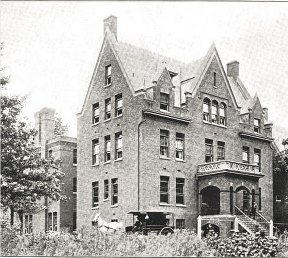 Original building of Passaic's General Hospital, built 1897.